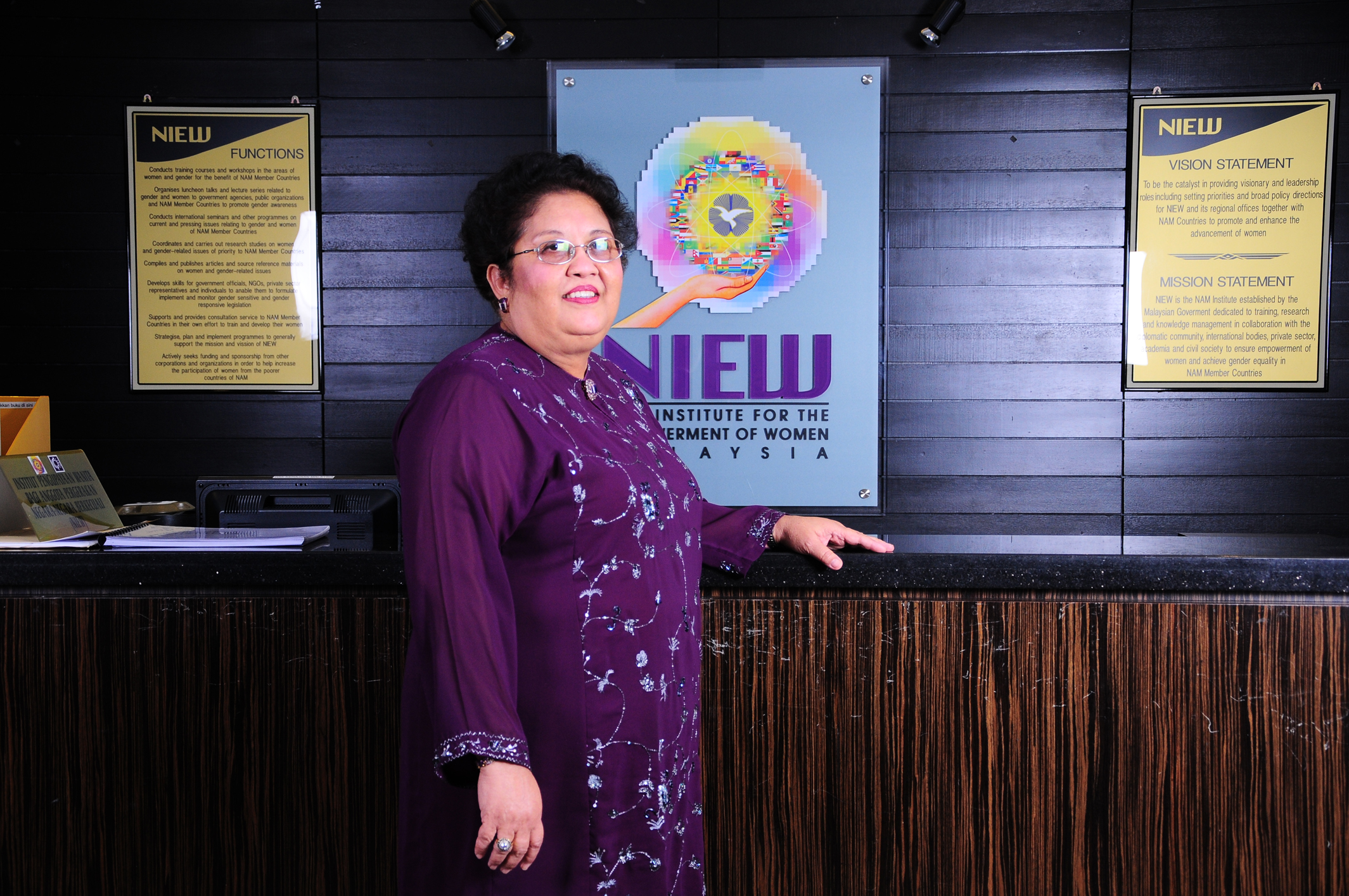 Tan Sri Datuk(Dr.) Rafiah Salim, Director of NAM Institute for the Empowerment of Women (NIEW)